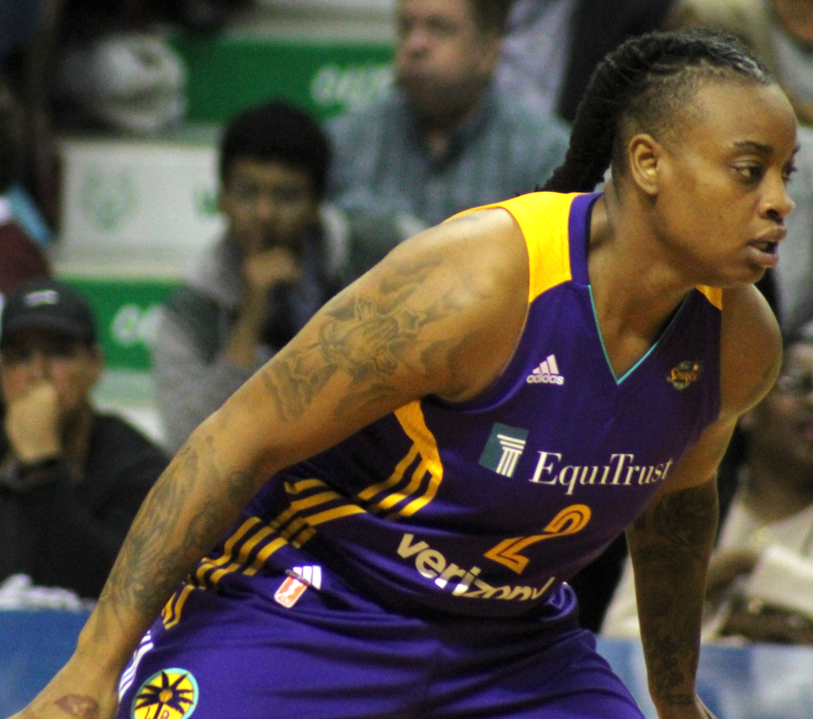 Riquna Williams of the Los Angeles Sparks during the 2017 WNBA Finals